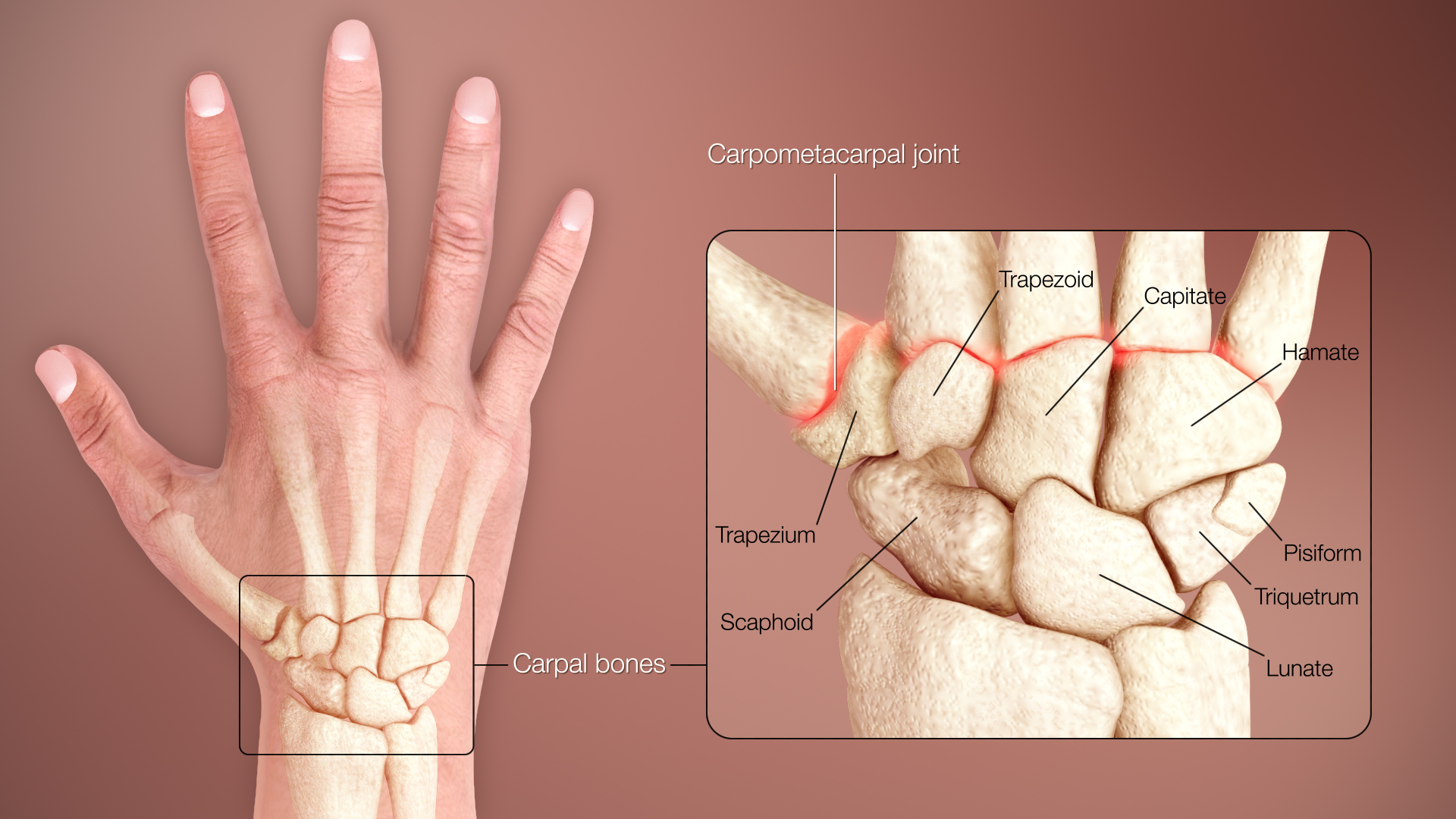 3D Medical illustration of the wrist bones of human body